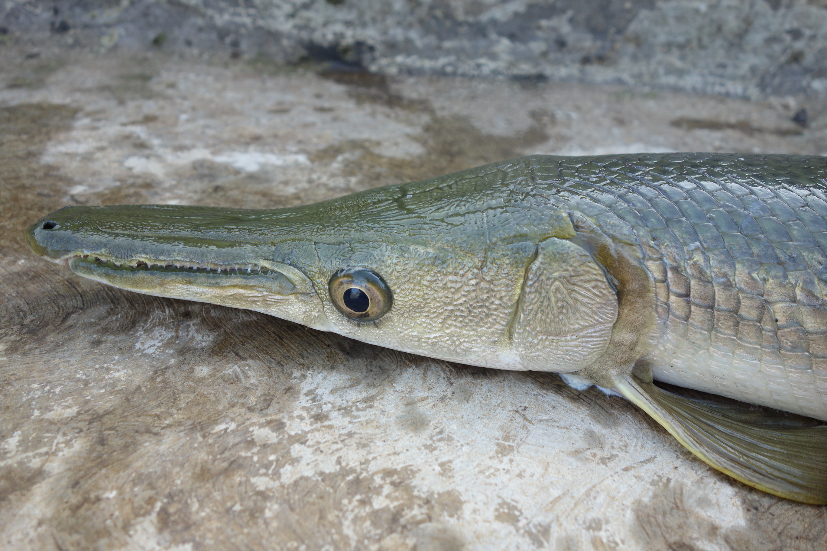 A head of an alligator gar caught in a reservoir icn Cikidang, West Jawa (Indonesia)